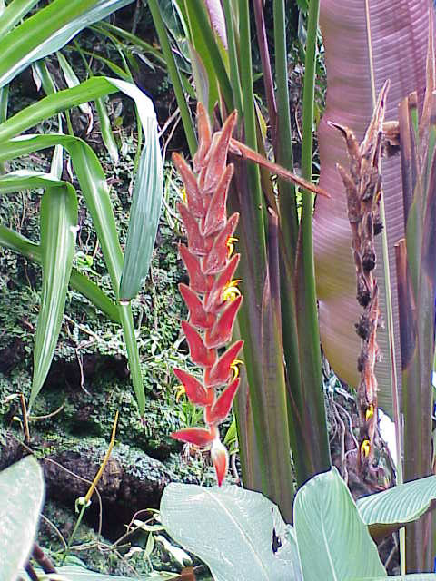 Species: Heliconia vellerigera Family: Heliconiaceae Image No. 3